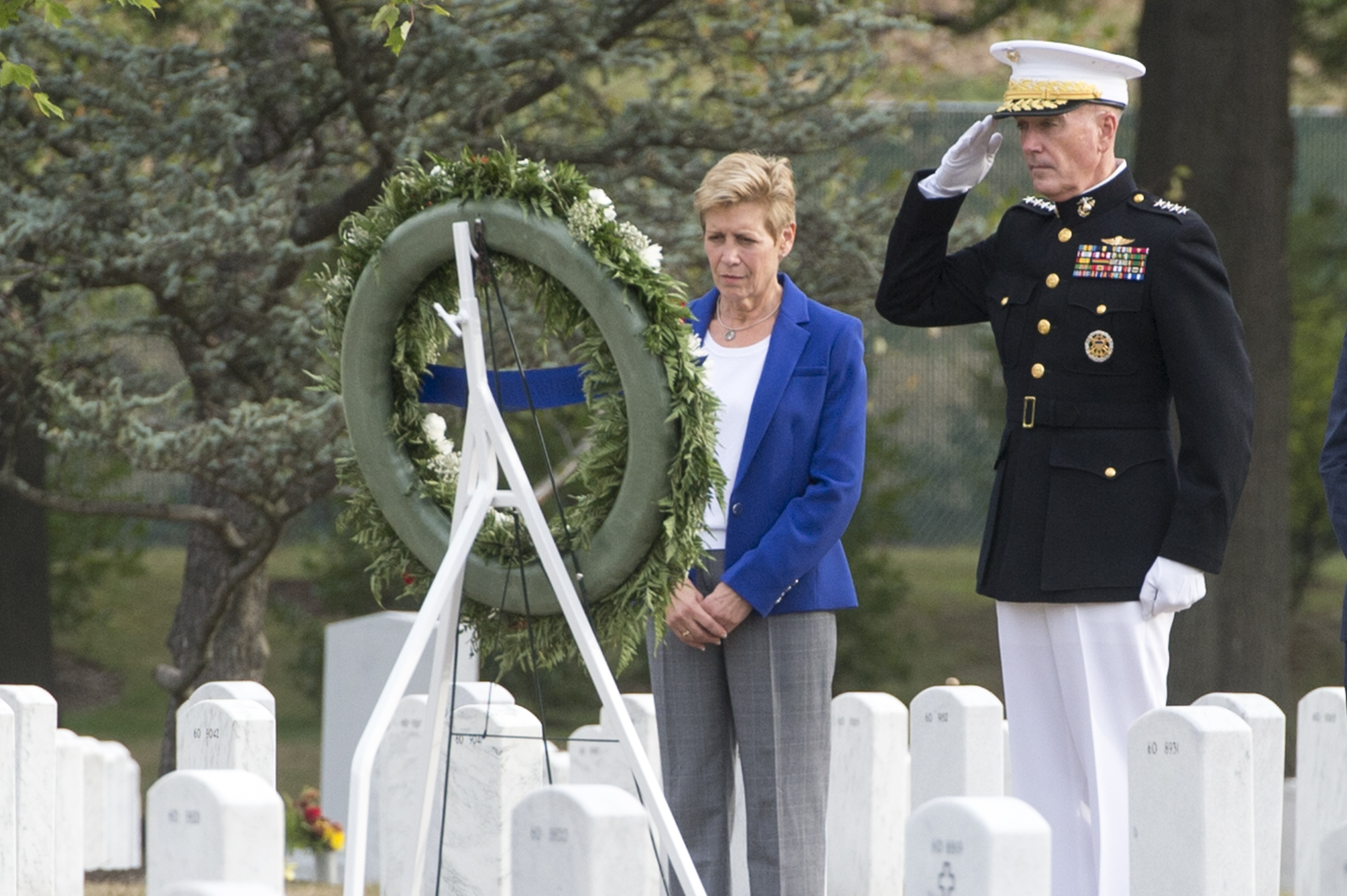 Marine Gen. Joseph F. Dunford Jr, and his wife, Ellyn Dunford, render honors after laying a wreath at Section 60 in Arlington National Cemetery on the morning he'll be sworn in as the 19th Chairman of the Joint Chiefs of Staff, Arlington, Va., Sept. 25, 2015. DOD photo by D. Myles Cullen (released)